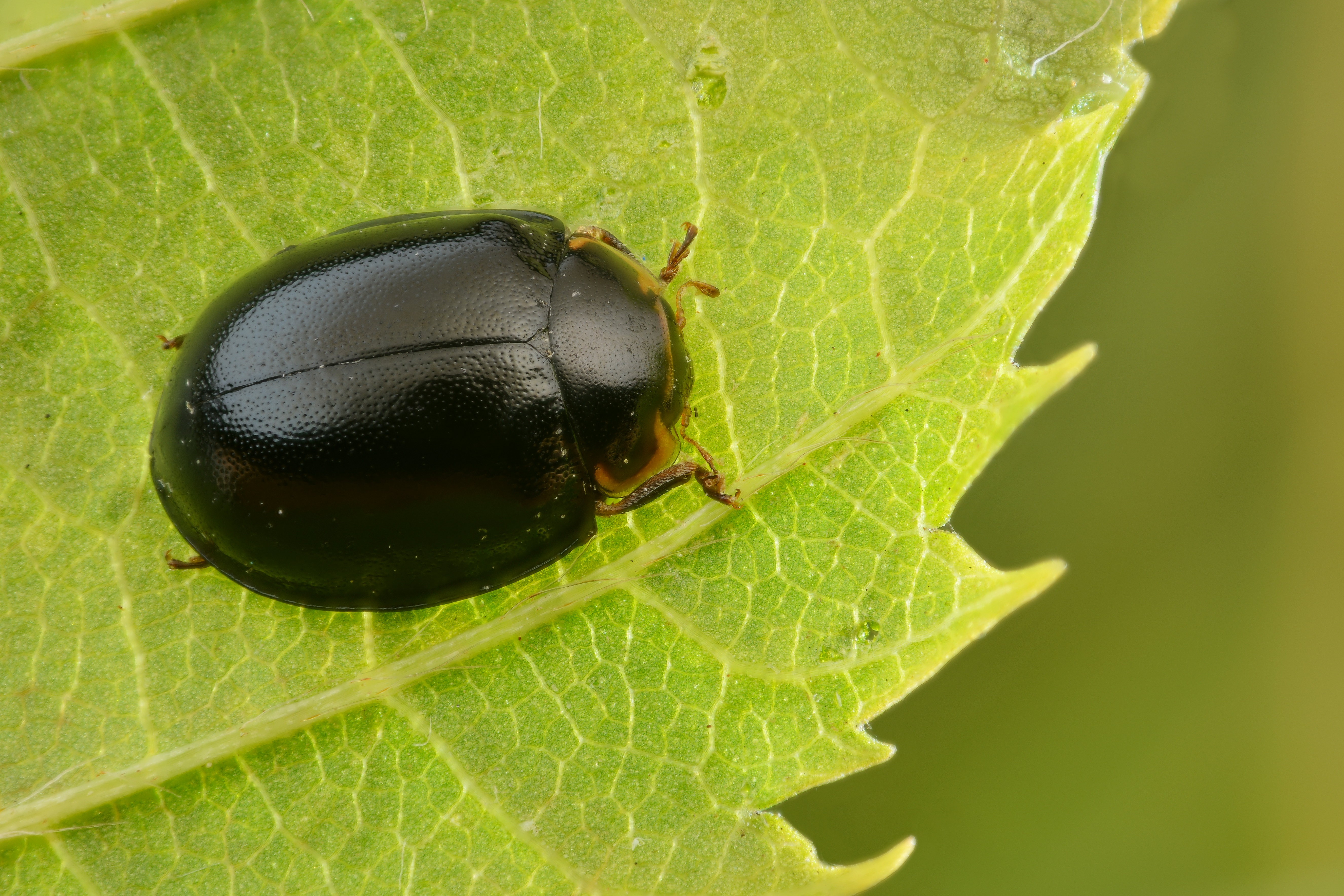 Oenopia impustulata (Coleoptera Coccinellidae). One of the rarest and most threatened ladybird in Belgium (and in Europe ?). Belgium - Chaudfontaine - Bois des Dames - 28/05/2015 - leg JY Baugnée Focus stack of 30 pictures